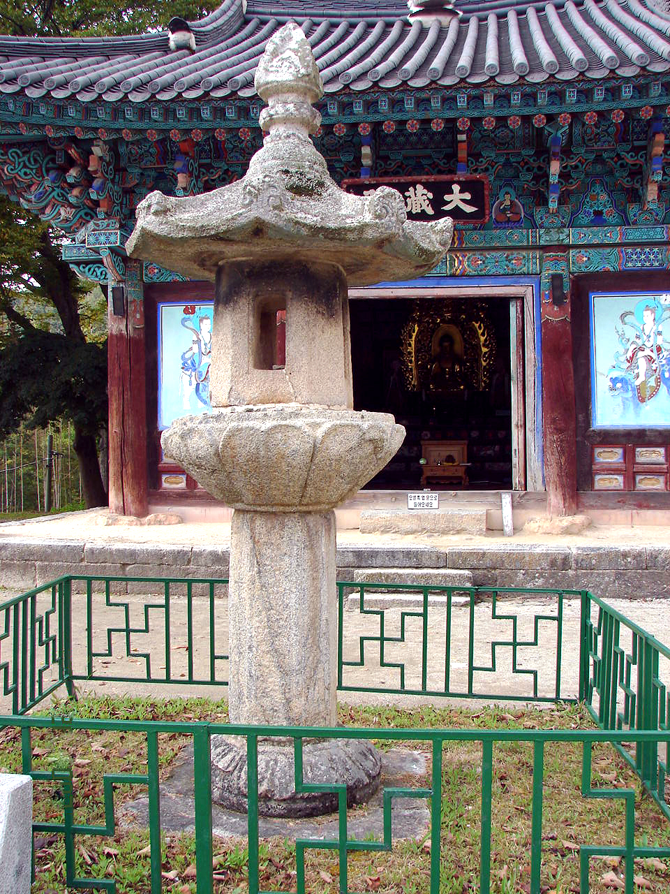 Geumsansa Seokdeung (Stone Lamp), or lamp of enlightenment, was used to light the front of the worship hall. The lamp is made of granite and measures 3.9m/12.8ft high. Dating back to the Goryeo period, was moved to this location in 1922. The square base is carved with a double lotus pattern. The octagonal base has straight lines carved along the length to represent the cosmos. The upper section of the lamp is carved with the fully bloomed lotus. National Treasure #828.